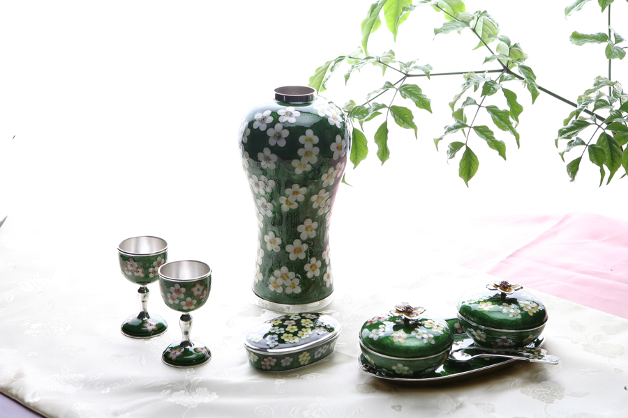 cloisonne artwork (Korea Namjung cloisonne)